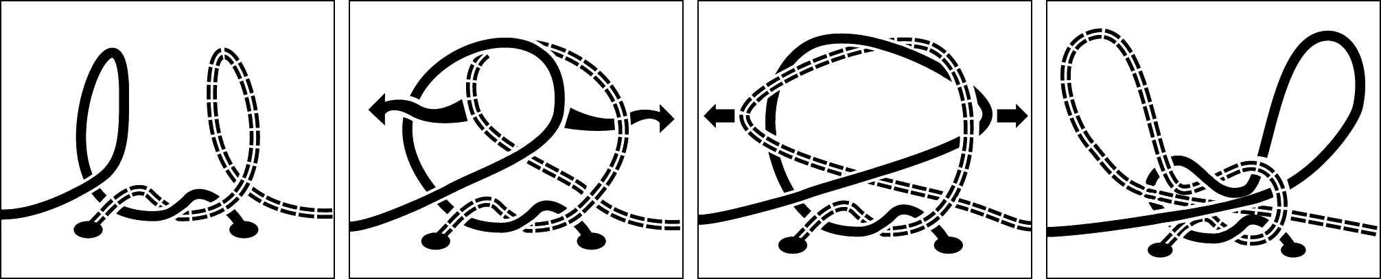 Steps in tying shoelaces